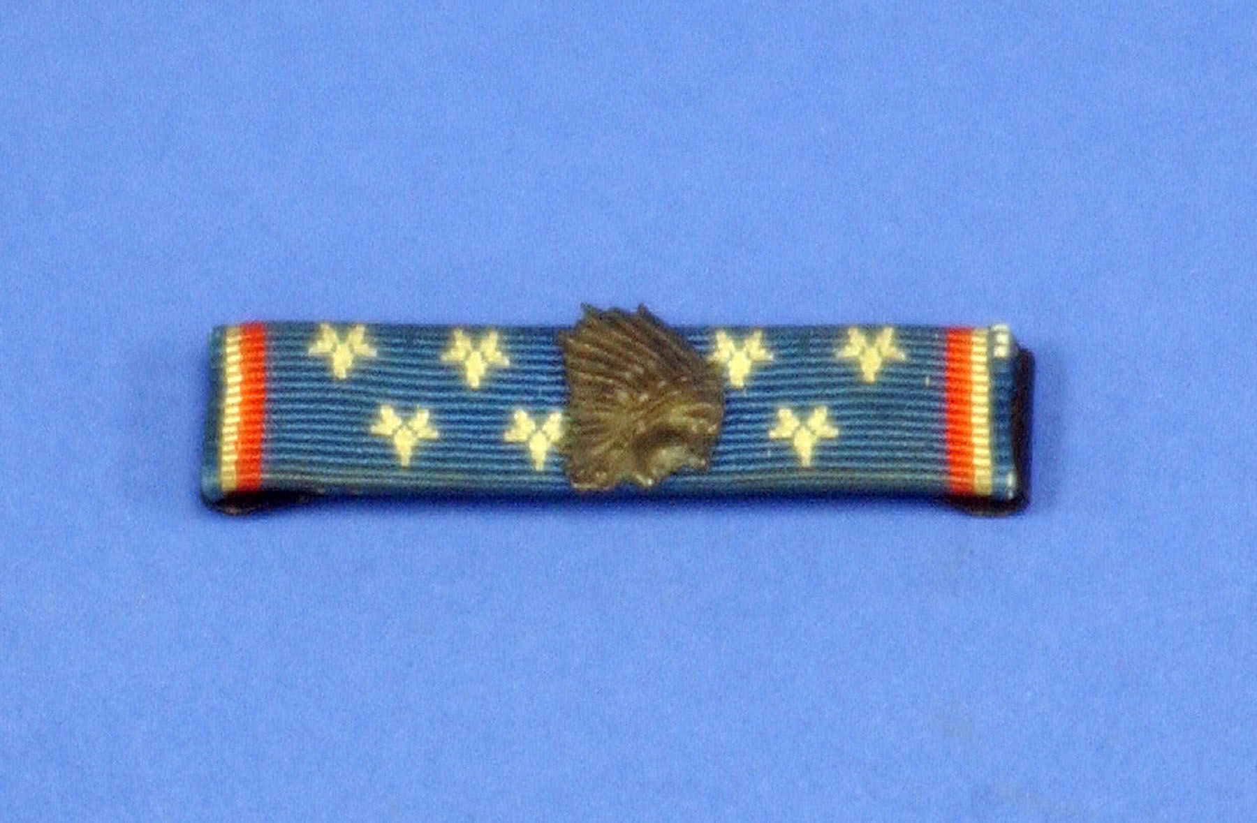 The Lafayette Flying Corps ribbon was awarded in the fall of 1918 to the 214 Americans in the French Air Service. This ribbon belonged to David E. Putnam. (U.S. Air Force photo)